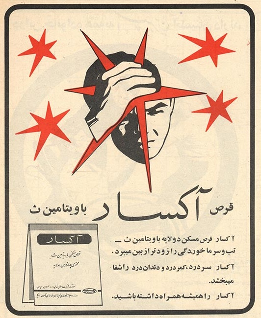 Excedrin - Magazine ad - Zan-e Rooz, Issue 303 - 16 January 1971